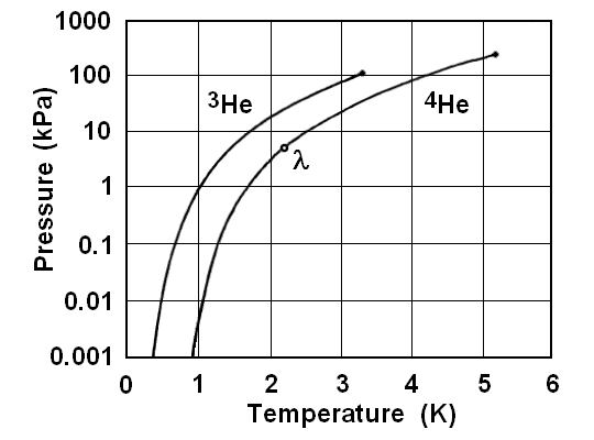 3He and 4He saturated vapor pressure plot.